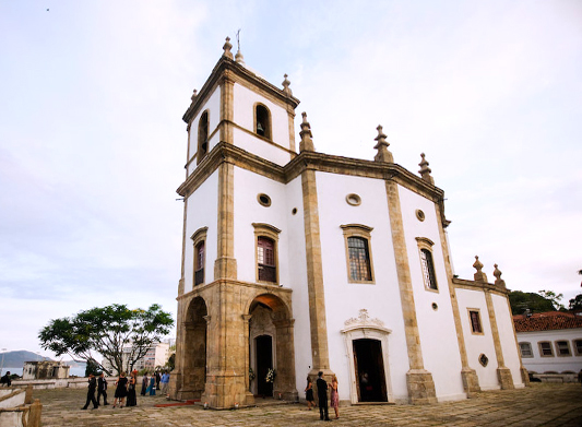 Exterior view of the Glória Church (Igreja da Glória) in Rio de Janeiro, Brazil